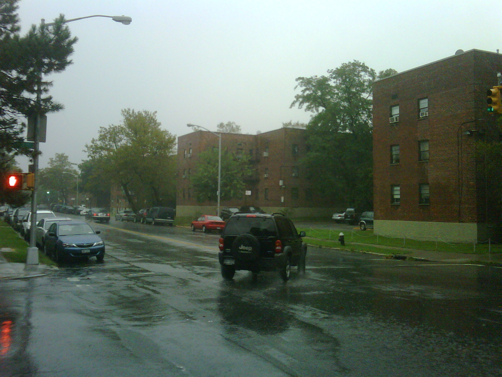 Heavy down pour and strong winds of Hurricane Hanna crossing over Kew Garden Hills, NY.